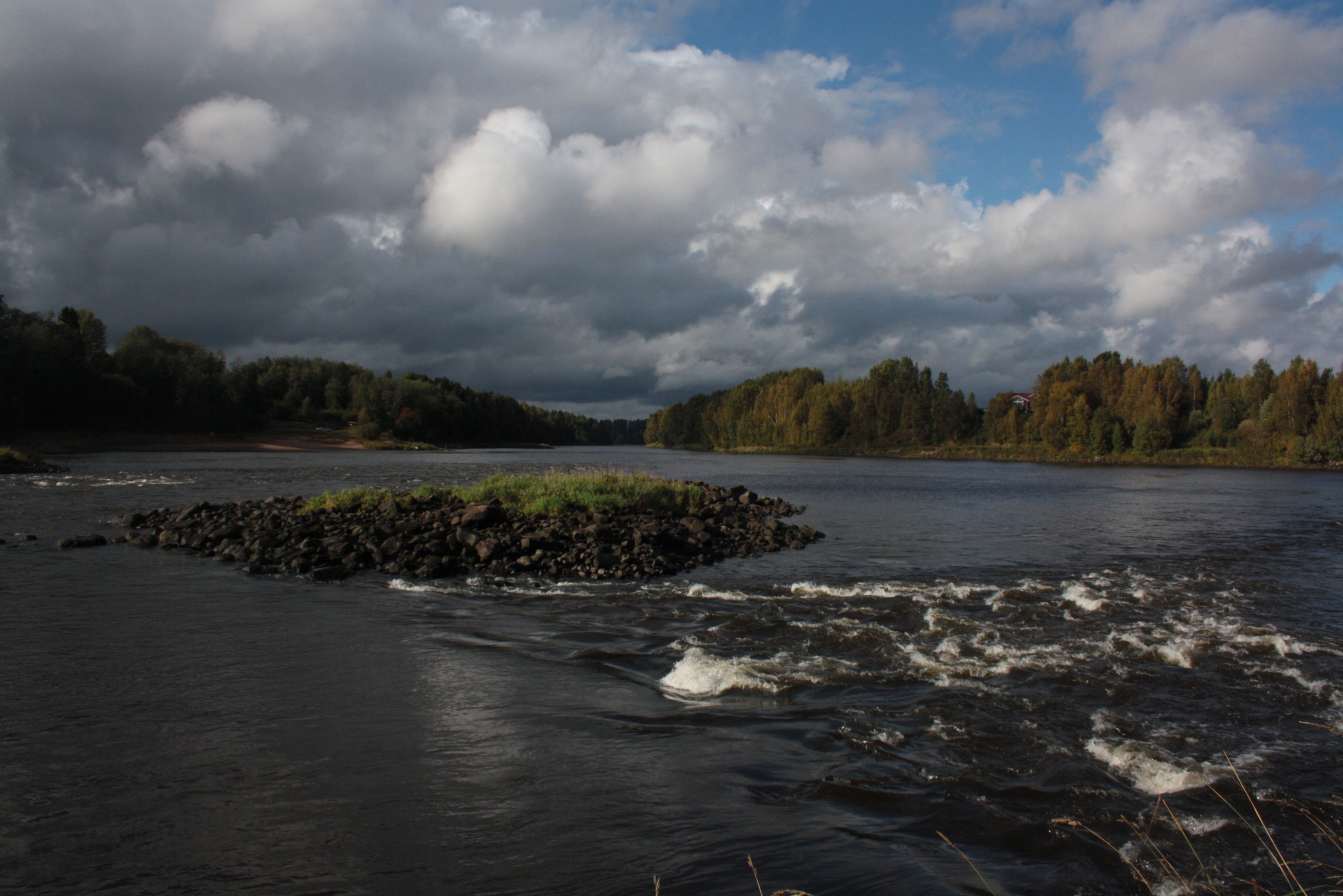 Arantilankoski rapid at Kokemäenjoki river in Nakkila.